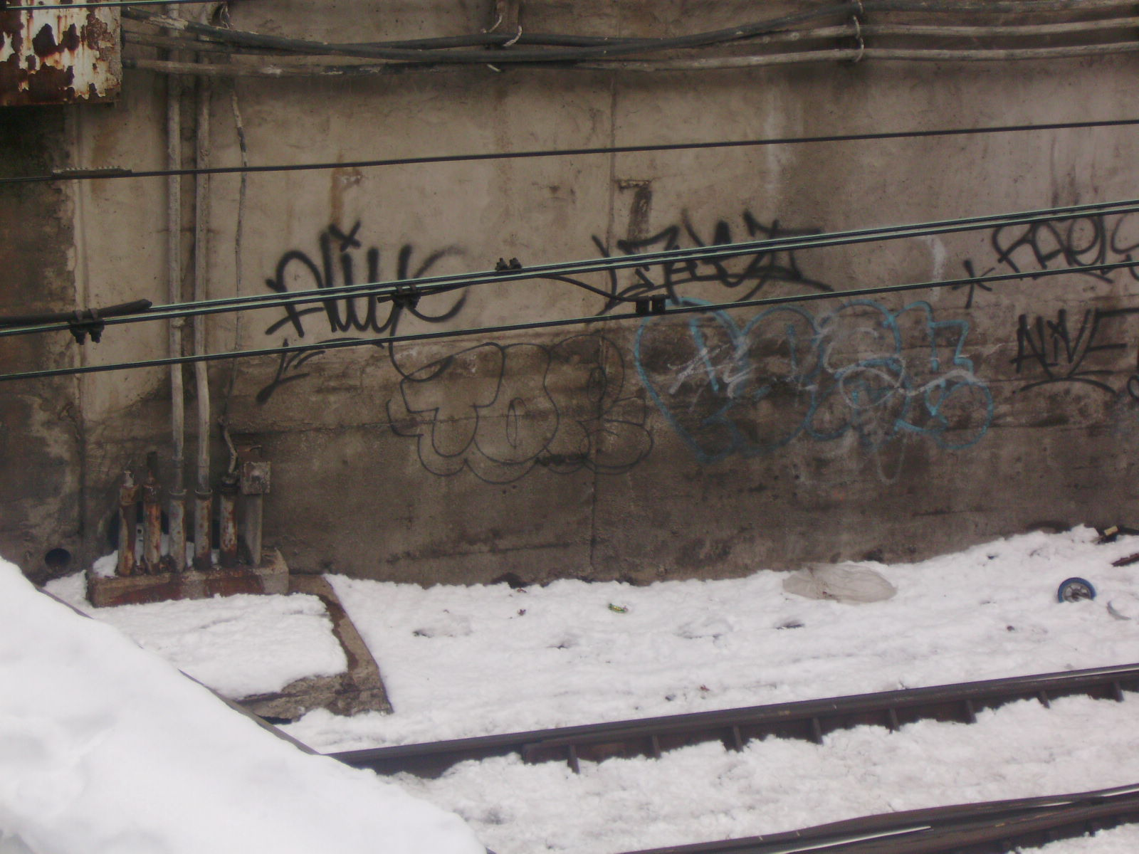 Roseville Avenue New Jersey Transit remnants in Roseville, Newark, New Jersey. The station was closed in 1984.